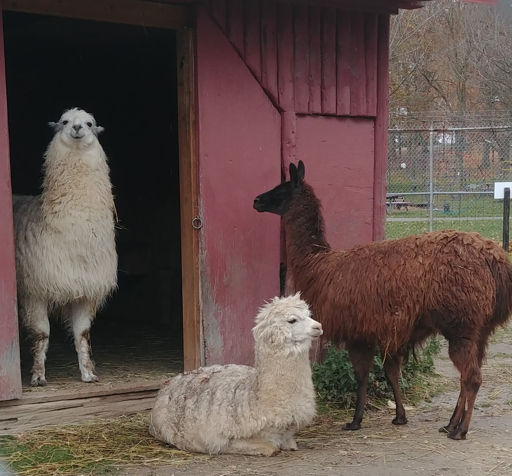 Llamas and alpacas sitting and standing next to the entrance of a red enclosure in Waterloo Park.